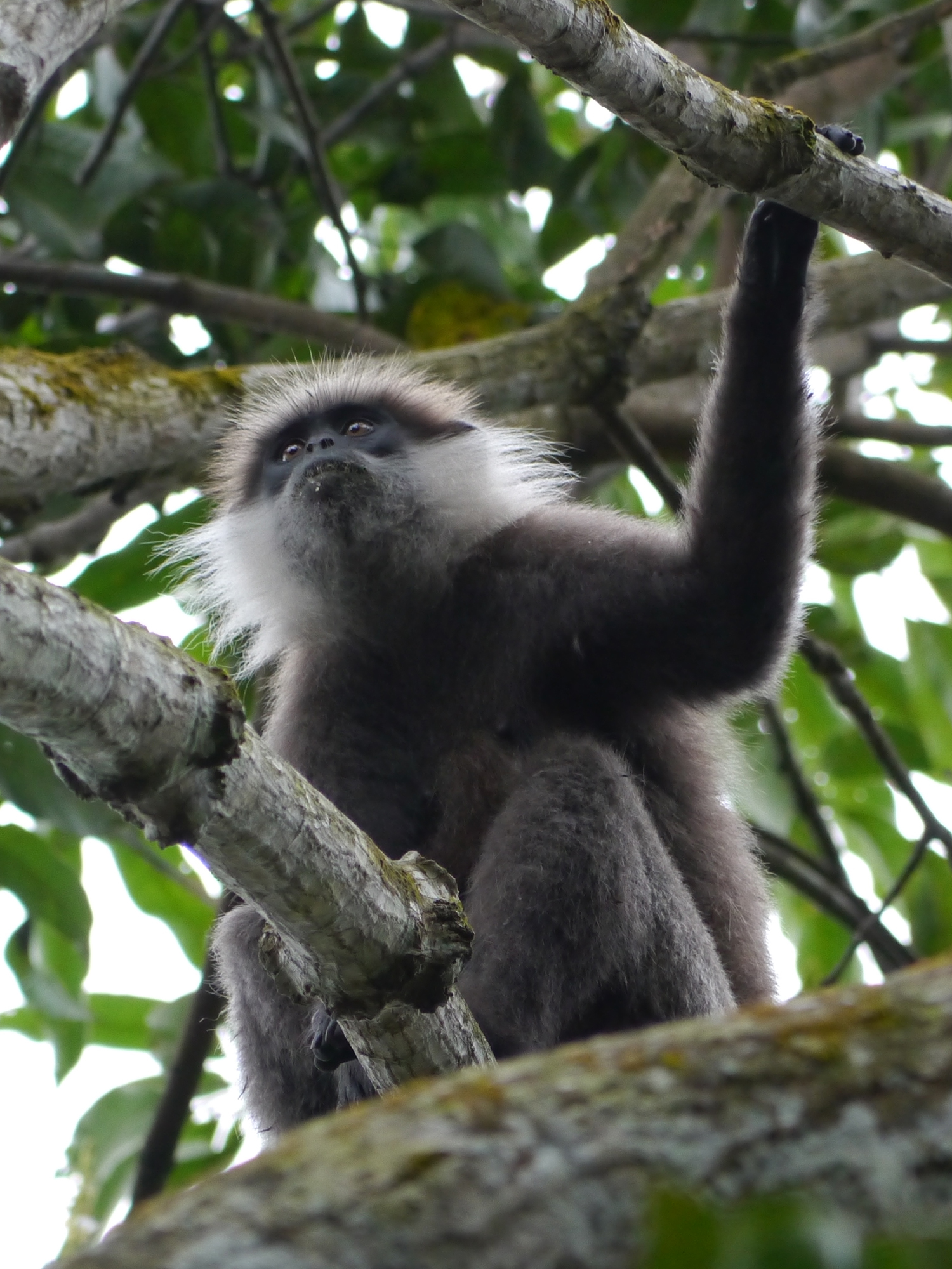 Trachypithecus vetulus nestor or Puple faced langur, in Athurugiriya, near Colombo, Sri Lanka